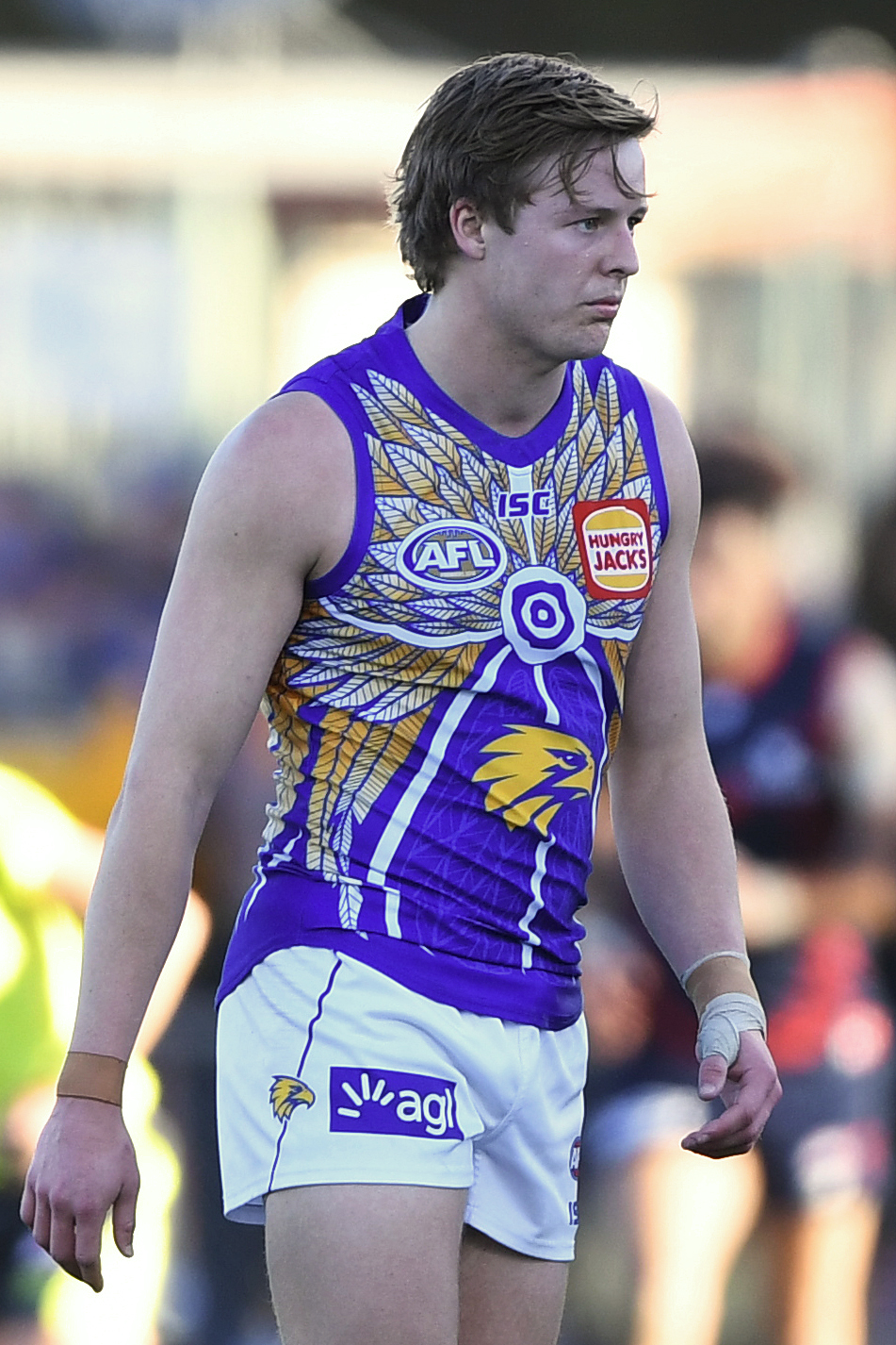 Jackson Nelson of West Coast during the 2019 AFL round 18 match between Melbourne and West Coast at Traeger Park on Sunday, 21 July 2019 in Alice Springs, Northern Territory.